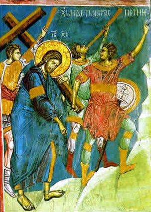 A 14th-century fresco of Jesus Christ bearing the cross, from the Visoki Dečani monastery in Kosovo.